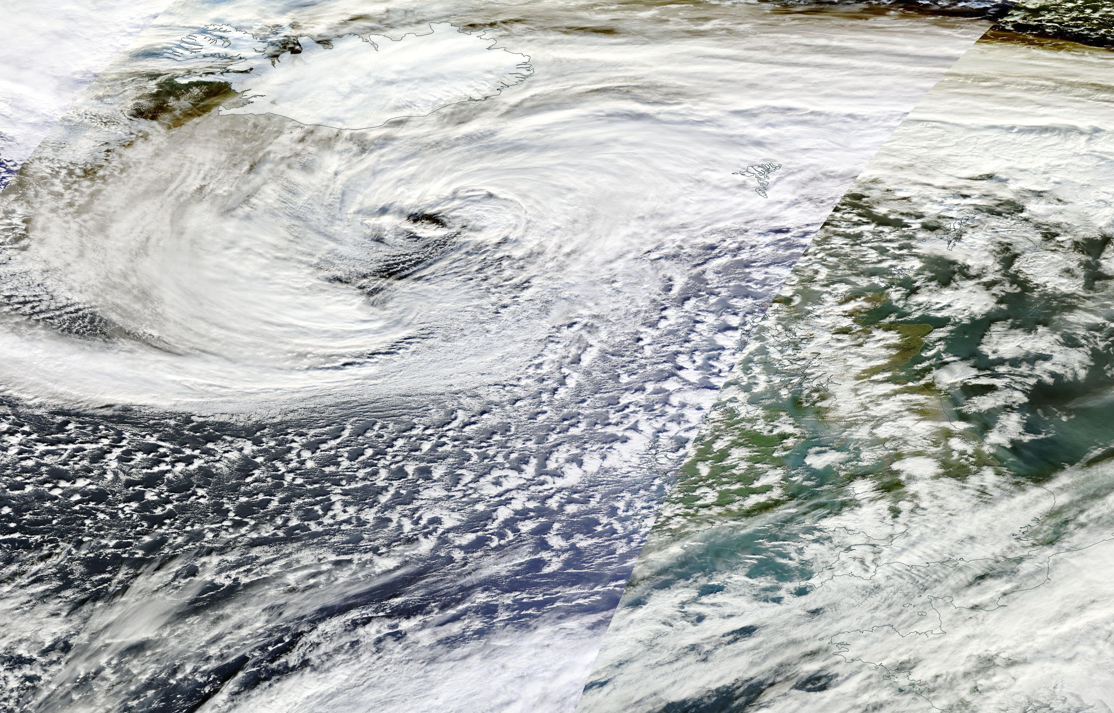 Storm Henry on 1 February 2016